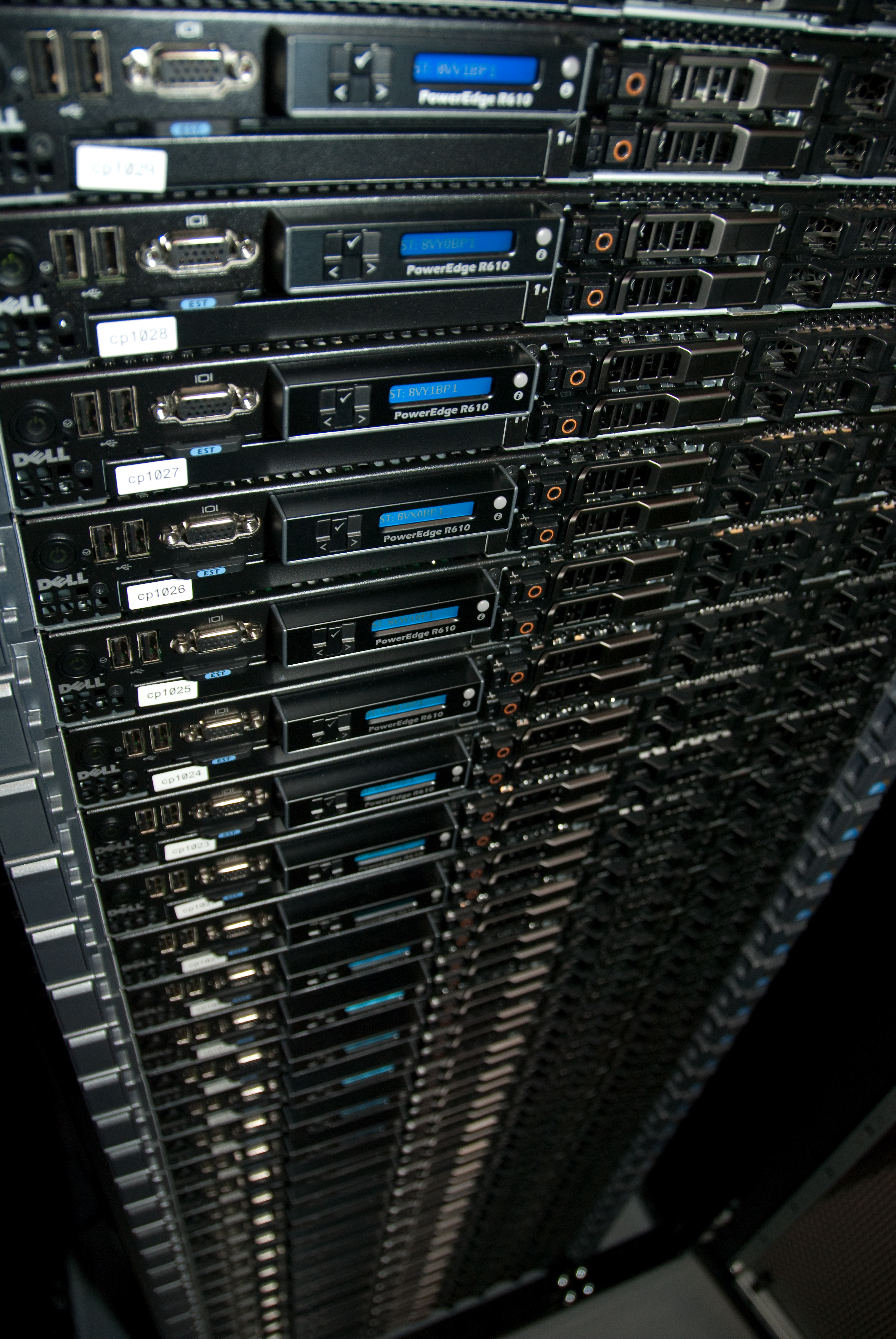 Photos of the Wikimedia Cluster in the EQIAD deployment